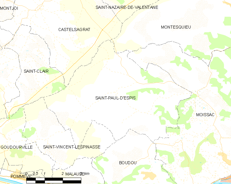 Map of French municipality Saint-Paul-d'Espis